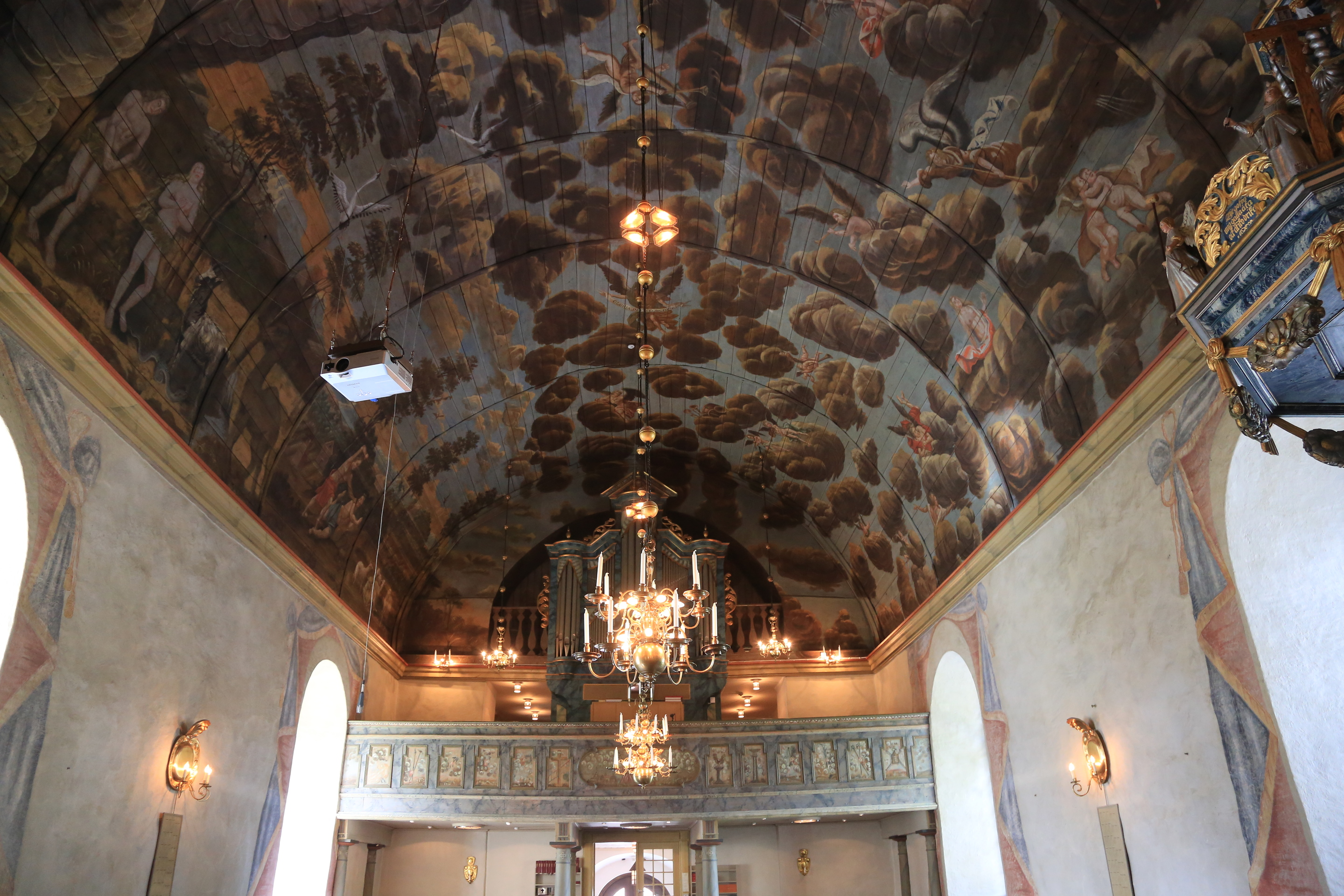 Ceiling in Ulricehamn church, Ulricehamn, Sweden. The ceiling was decorated in 1688 by Anders Falck.